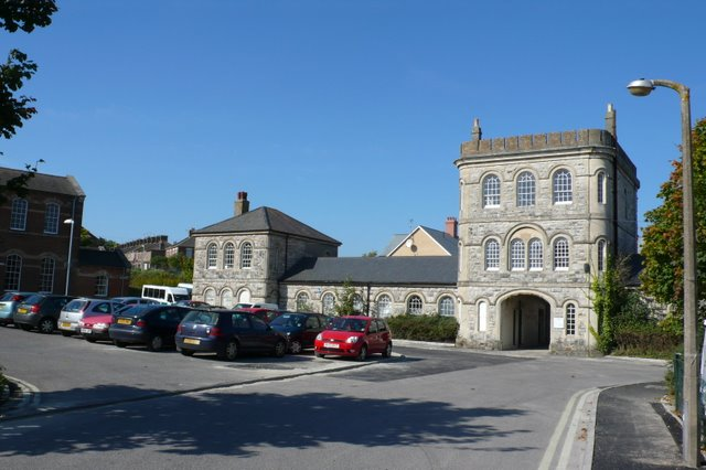 Dorchester Barracks Just on the north side of the Bridport Rd